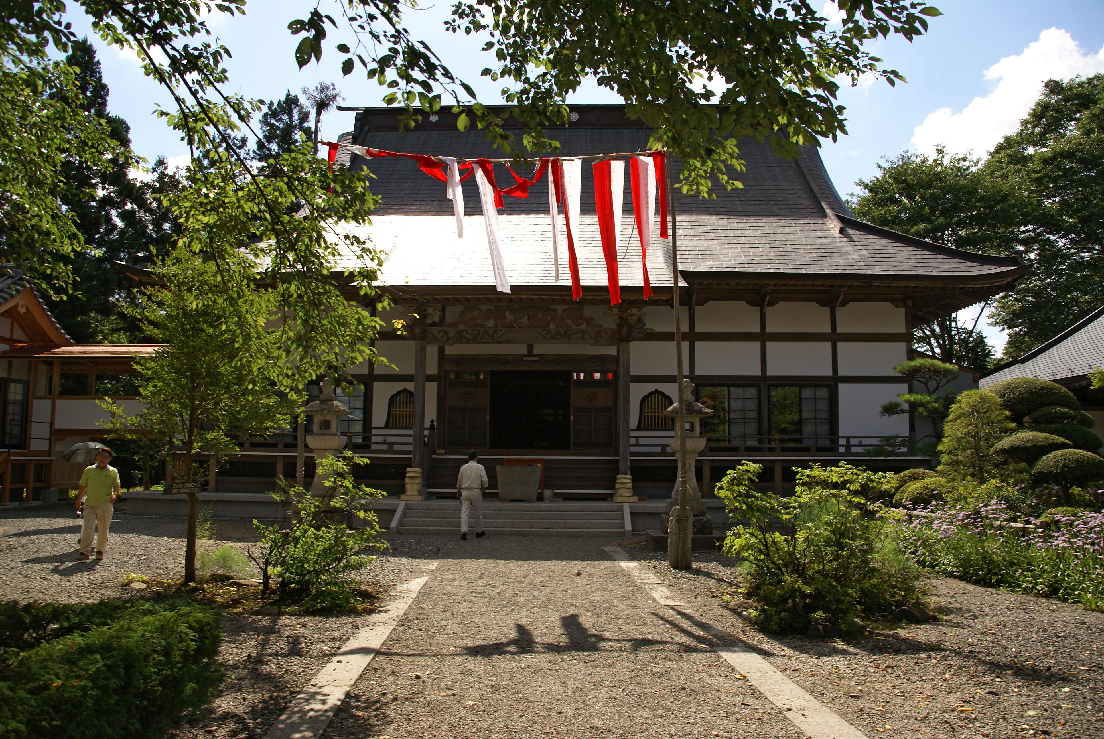 Jokenji in Tono, Iwate prefecture, Japan